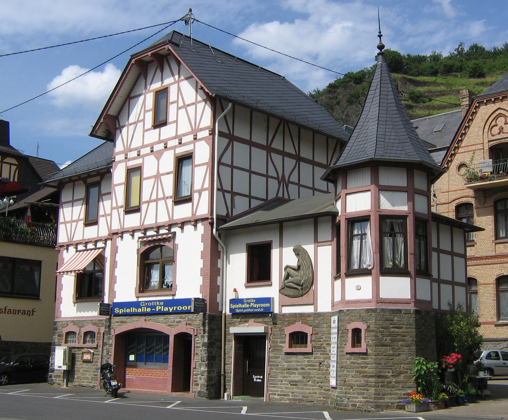 Sankt Goarshausen